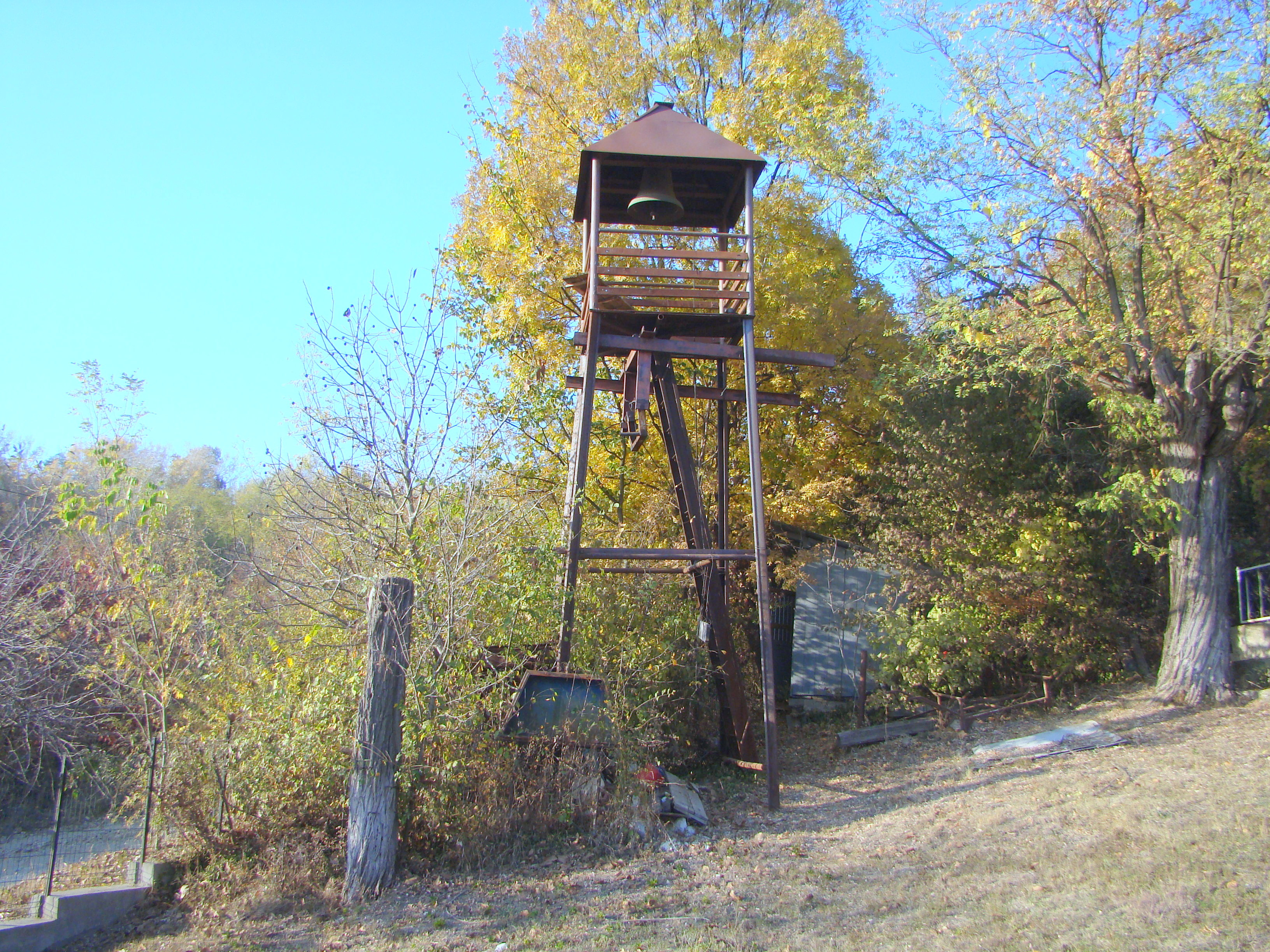 Wooden church in Horăști, Gorj county, Romania